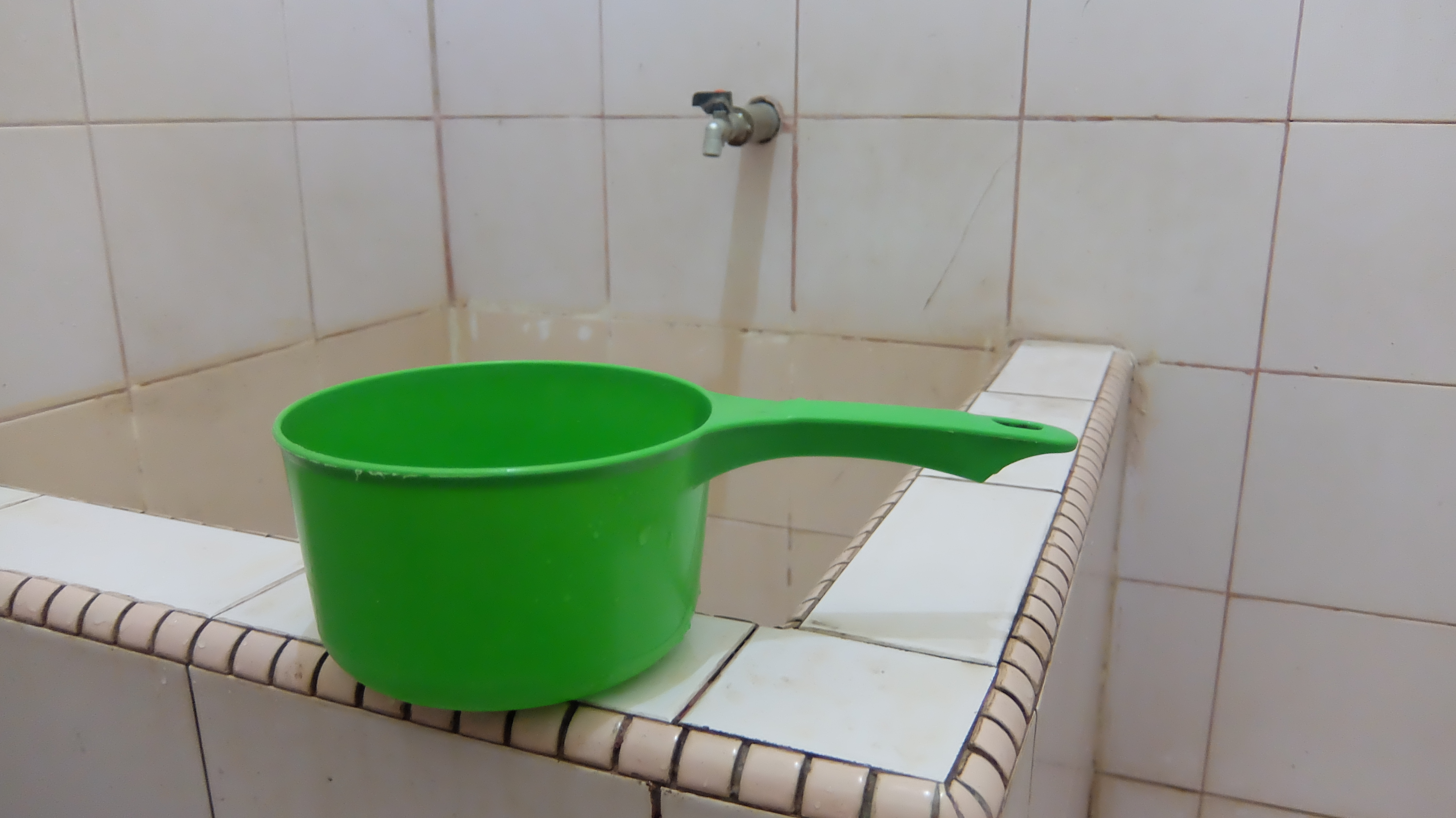 Tabo in bathroom